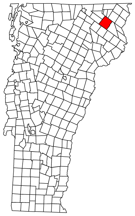 Description: Map of Vermont towns with Brighton highlighted Source: Map created by Jared C. Benedict on 26 March 2004. Copyright: © Jared C. Benedict. Category:Brighton, Vermont